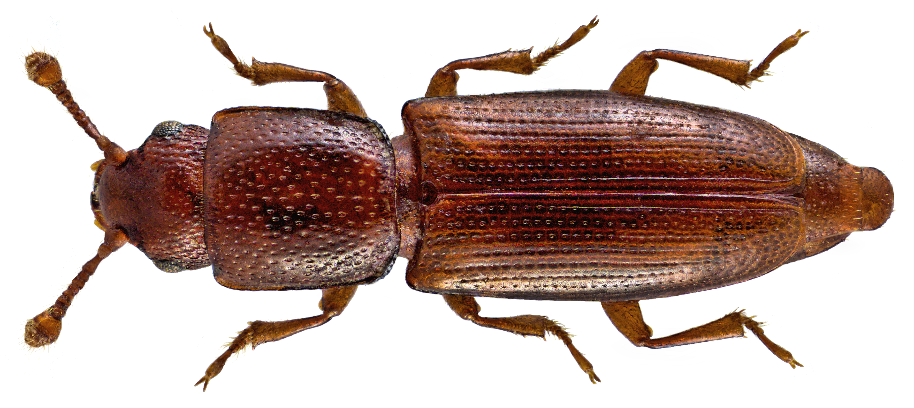 Family: Monotomidae Size: 3,3 mm (3,0-4,0 mm) Origin: Europe Ecology: under bark Location: Germany, Bavaria, Upper Franconia, Selbitz leg.det. U.Schmidt, VI.2000 Photo: U.Schmidt, 2014